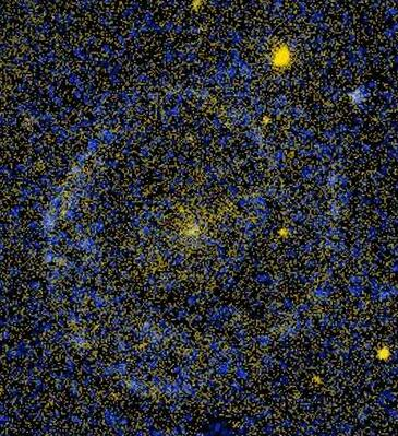 GALEX (ultraviolet) image of NGC 5101. The "yellow star" in the upper right has a visual apparent magnitude of 10.